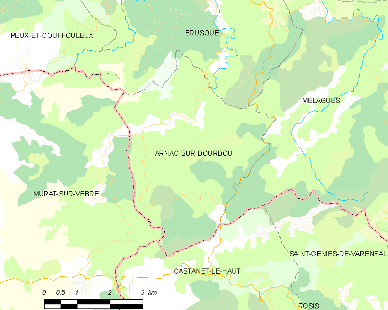 Map commune FR insee code 12009.png - Arnac-sur-Dourdou